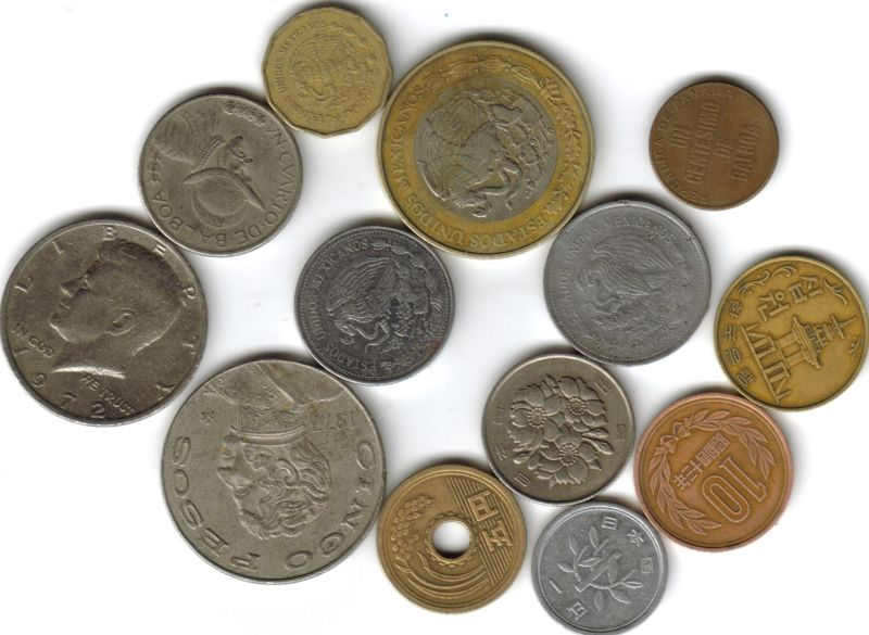 Some of my coins.